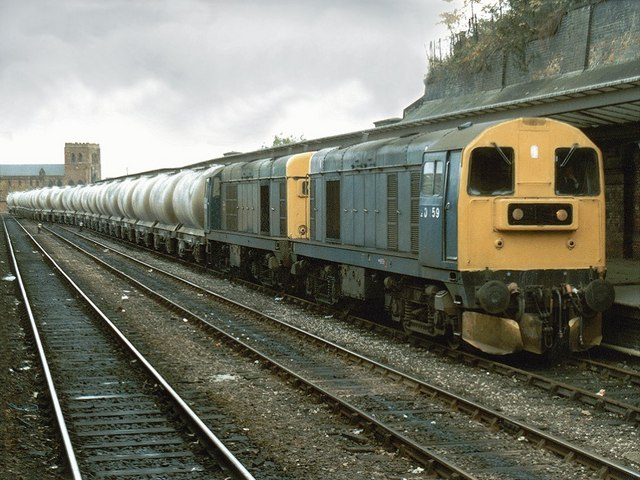 Railway Station, Shrewsbury This tank train, headed by Class 20159 and 20158, has arrived from the direction of Upton Magna and has crossed the Church Stretton tracks. Class 20s normally run in pairs, bonnet to bonnet. 228 were built by English Electric between 1957 and 1968 to replace less reliable locomotives. A favourite with enthusiasts, they were employed to run specials to Skeggie. At Sheffield, I once recorded three running in multiple on a special to Brighton. Most have been withdrawn, but several have been preserved. In the background is Shrewsbury Abbey which was founded by Roger de Montgomery, a relative of William the Conqueror, in 1083.